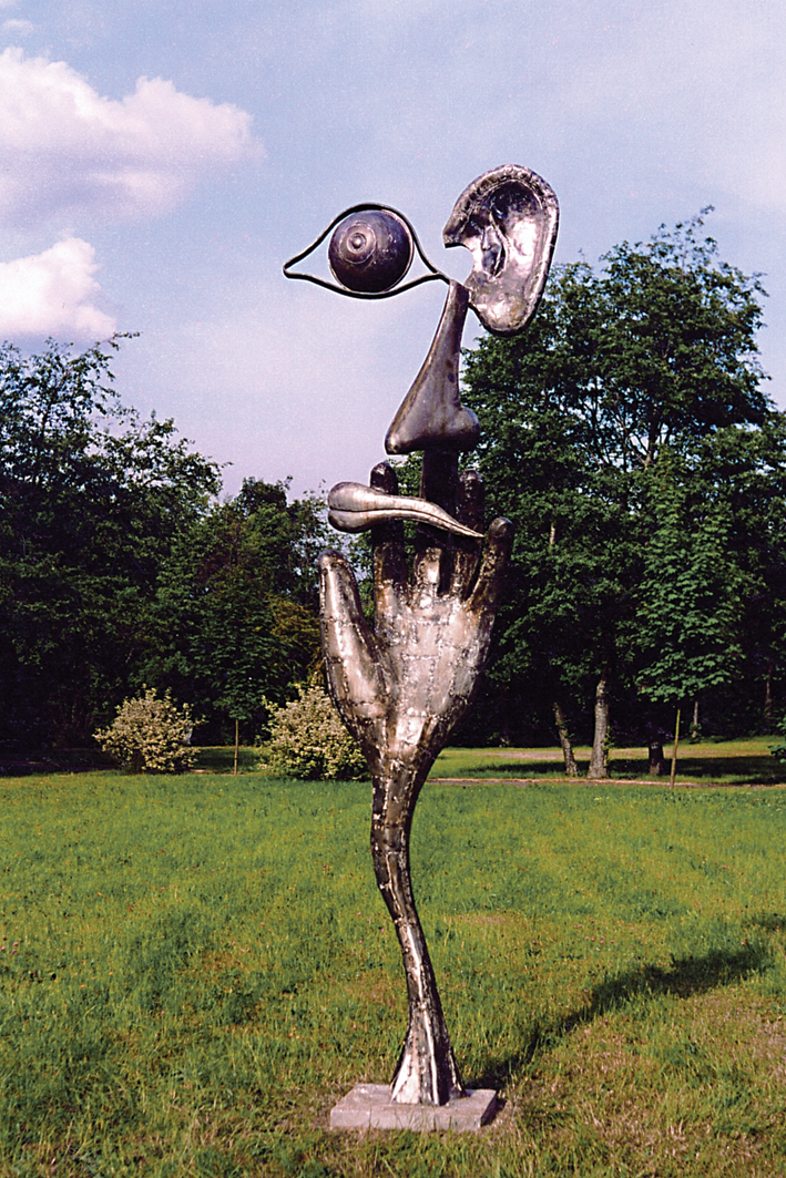 Lubo Kristek: Monument to the Five Senses, 1991, metal sculpture, 450 cm, collection of the Neues Stadtmuseum, Landsberg am Lech[1]